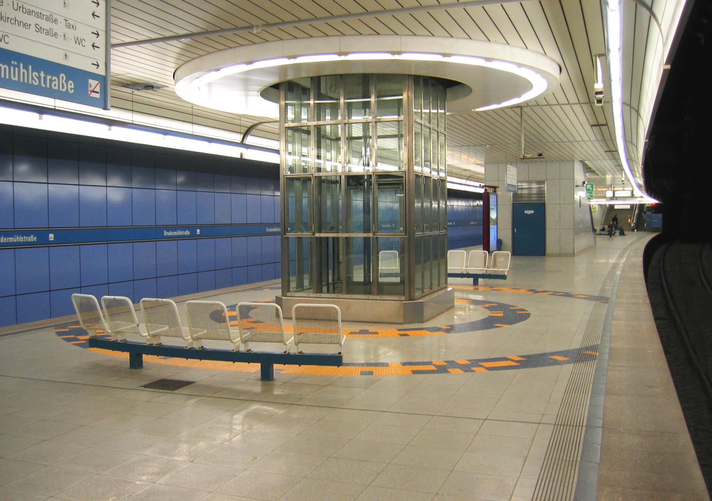 Munich subway station Brudermühlstraße (line U3)